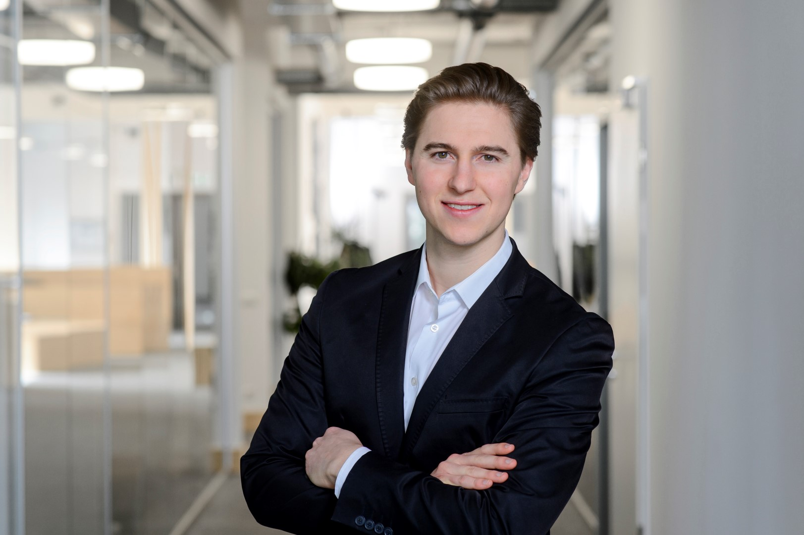 Andreas Kunze, German entrepreneur, co-founder and CEO of technology start-up KONUX GmbH